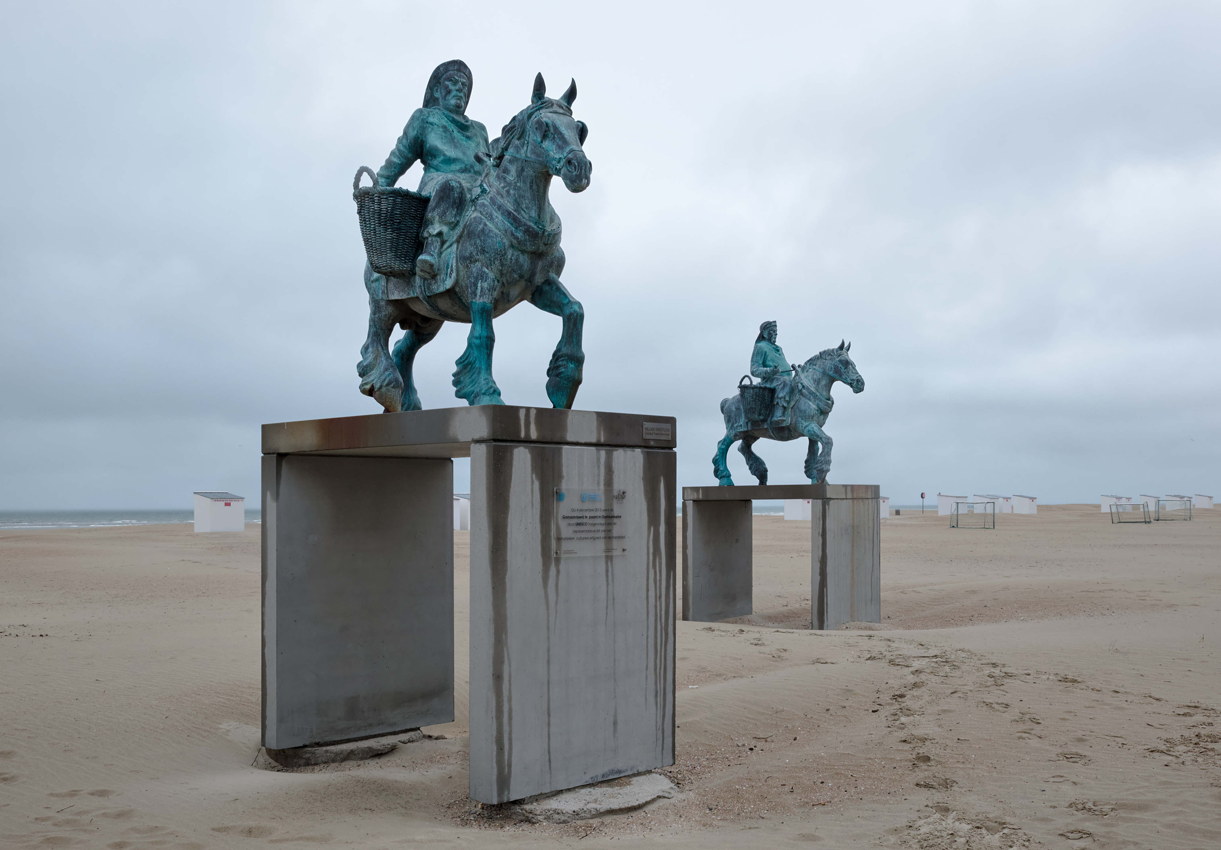 "Cloned Paardenvisser" statue of the shrimpers on horseback by William Sweetlove on Oostduinkerke beach in Koksijde, Belgium This photo of immovable heritage has been taken in the Flemish Region